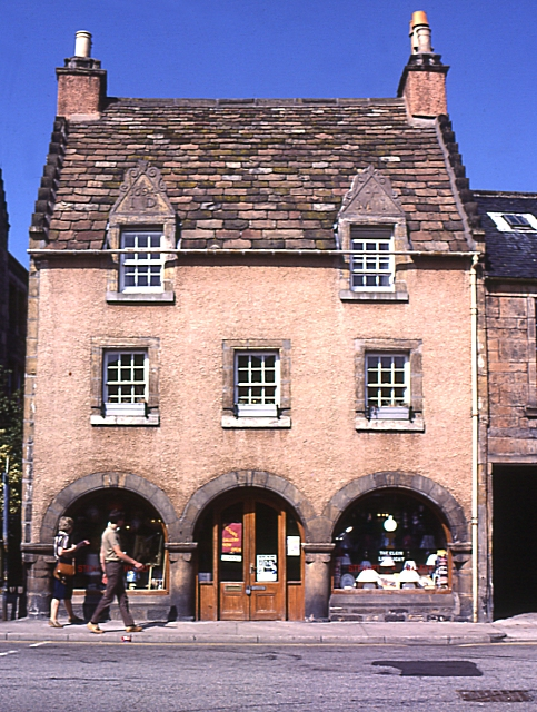 Braco's Banking House This delightful little house, at 7 High Street, was built in 1694 by Duff of Braco. It is one of just three surviving buildings with the arched ground floor. Originally there would have been a shop in the ground floor, set back under the arcade to afford shelter to passers-by. These arcades were called piazzas.